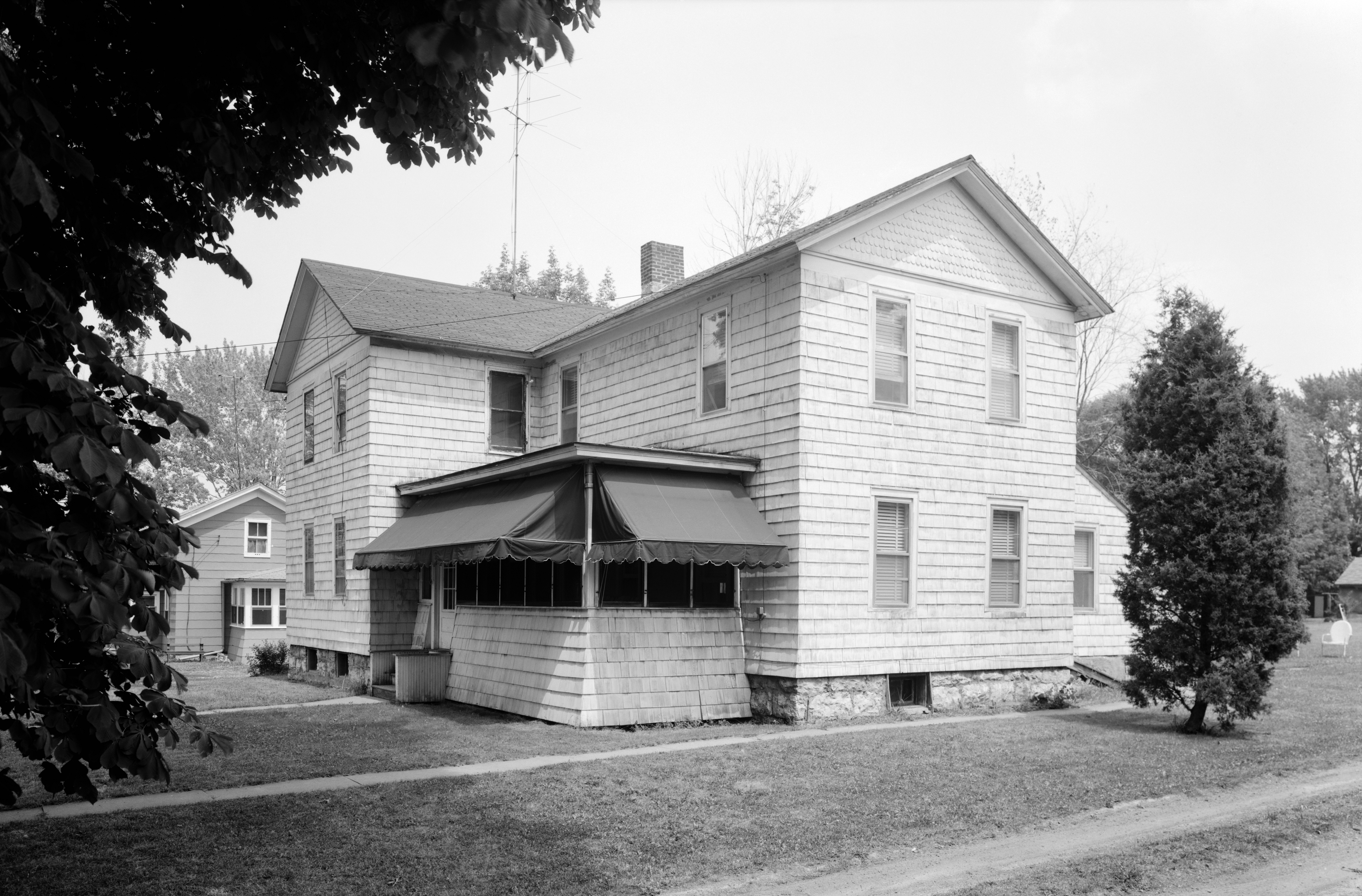 Elizabeth Cady Stanton House, 32 Washington Street, Seneca Falls, Seneca County, New York. HABS photo, then cropped.